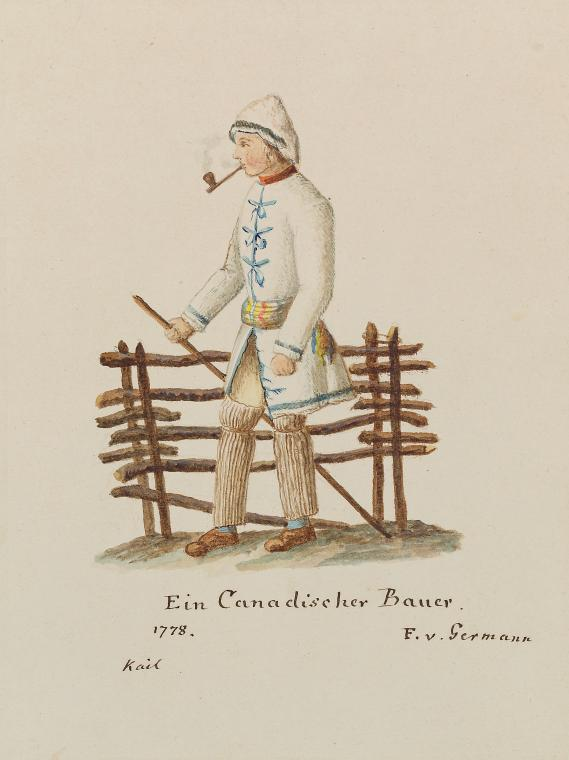 The watercolor features a coat that appears to be made from a White trade blanket with a striped border at the coat's hem, sleve cuffs and hood (Stack 2004, p. 34, note 27).